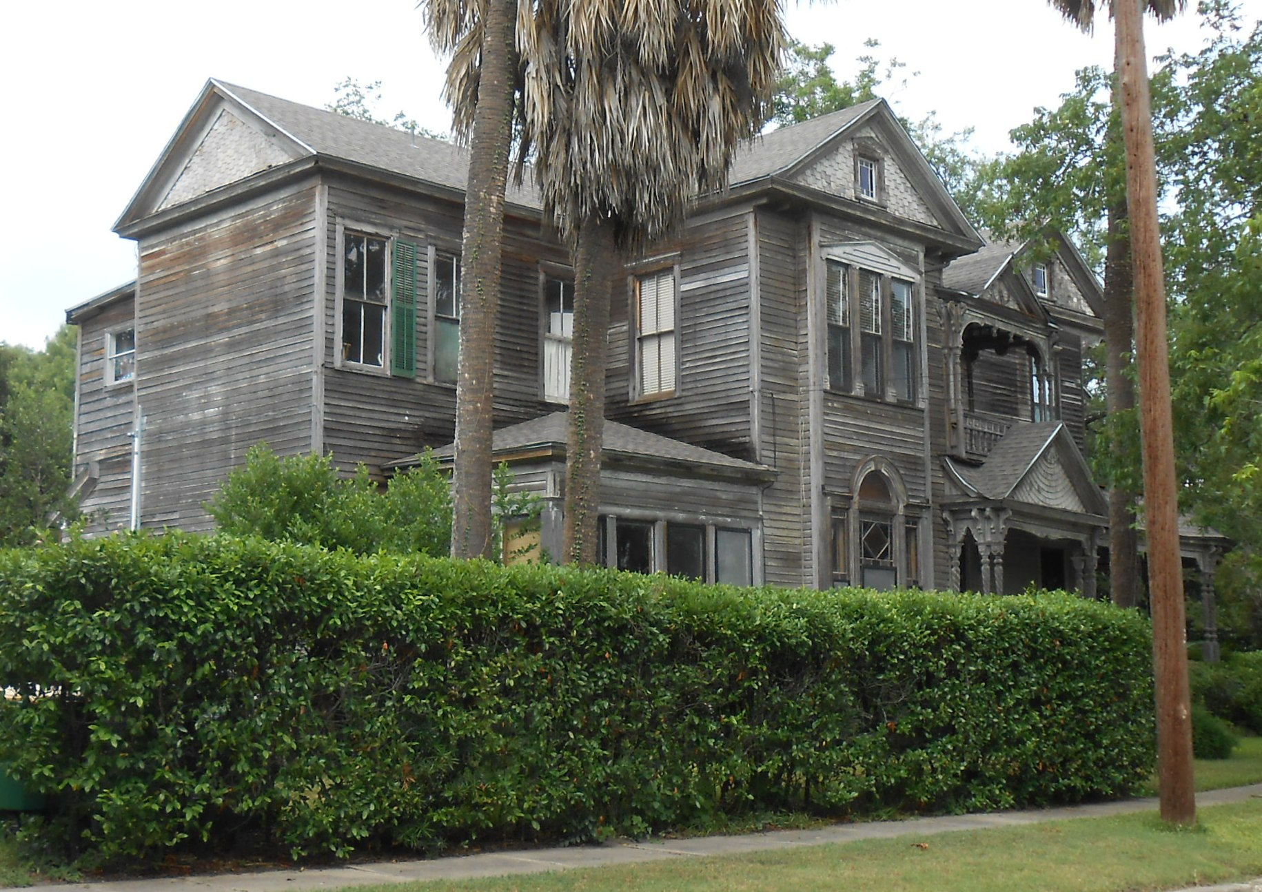 Theodore Buhler House, 202 W. Stayton Street, Victoria, Texas